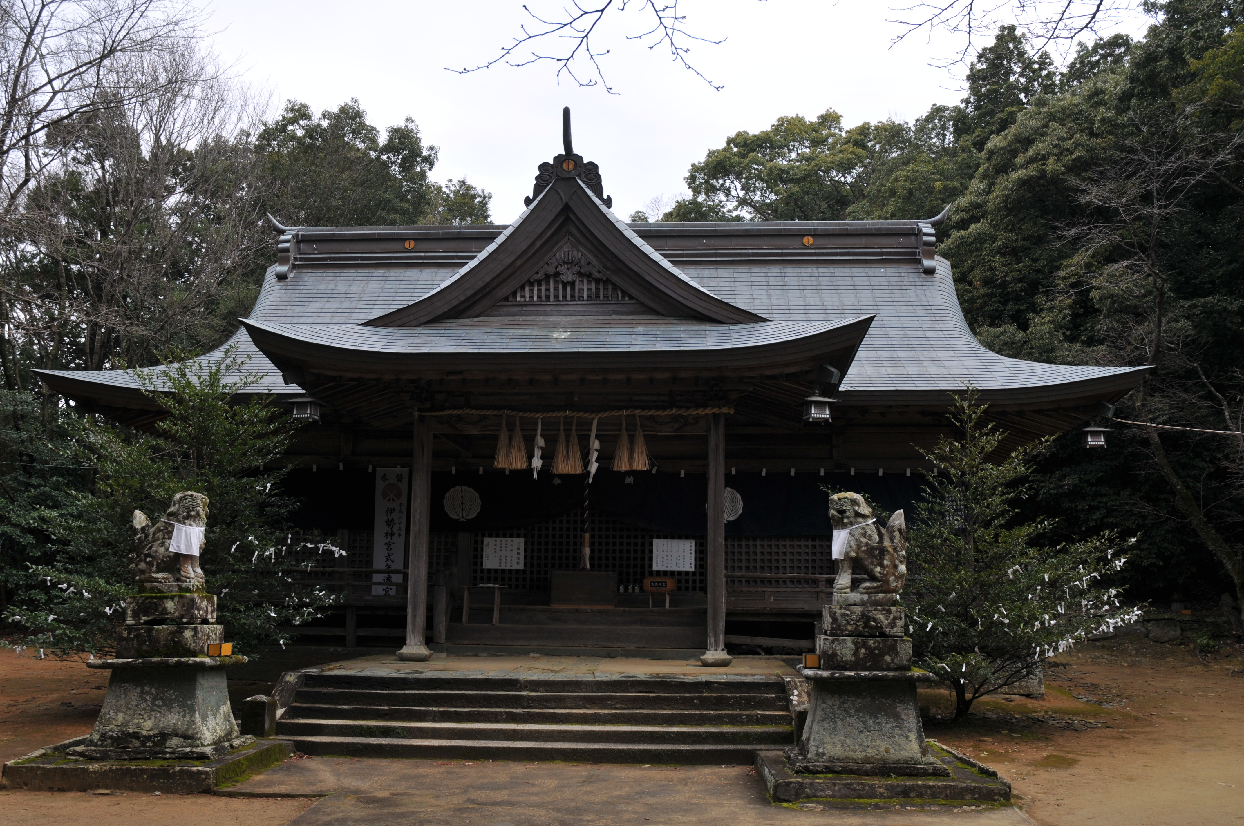 Yakurahime-jinja front shrine